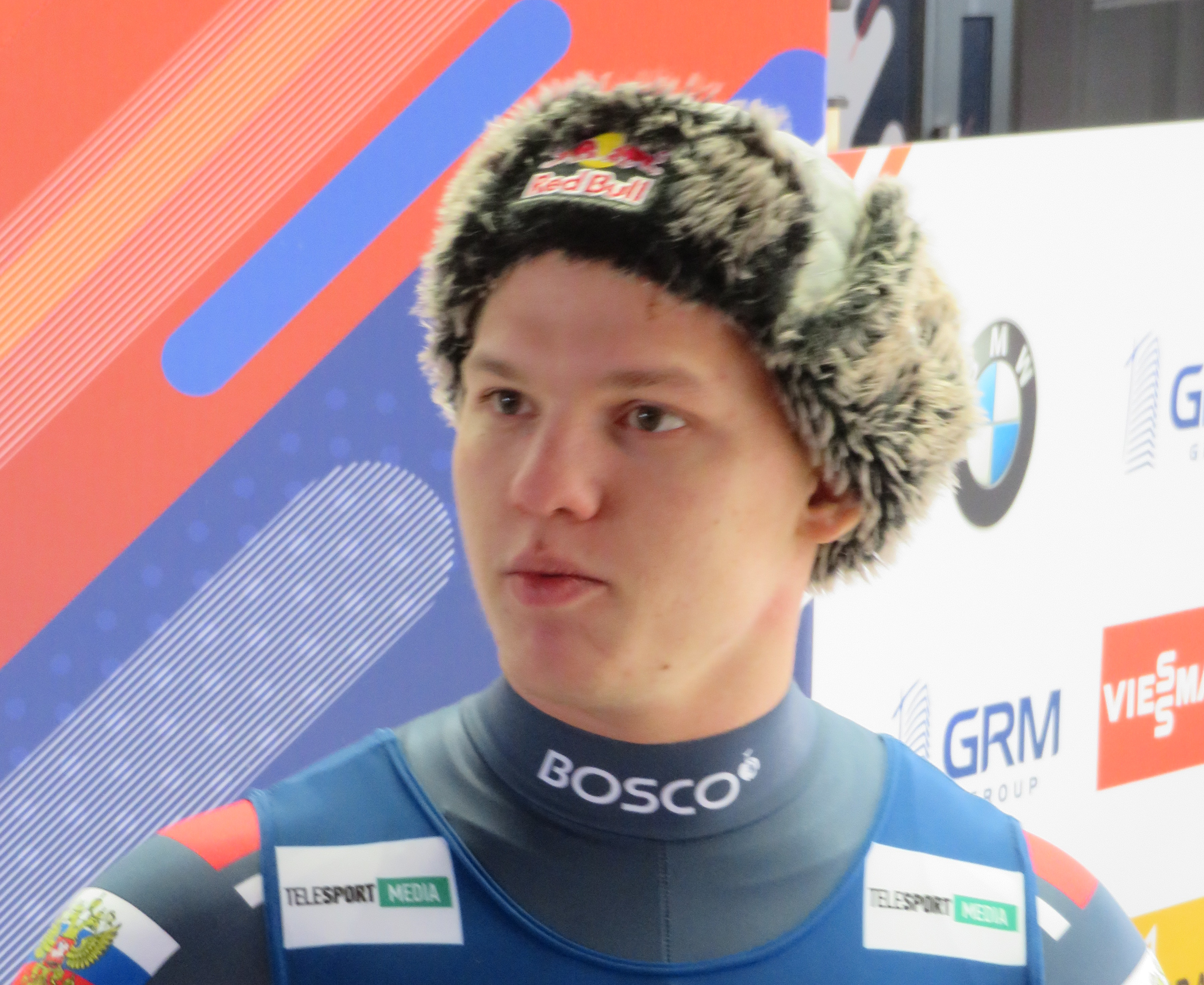 Roman Repilov after the win in the men's sprint competition at the 2020 FIL World Luge Championships in the Sliding Center Sanki in Sochi on 14 February 2020.